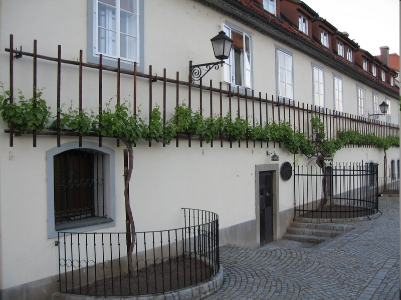 Oldest vine of the World - Stara trta